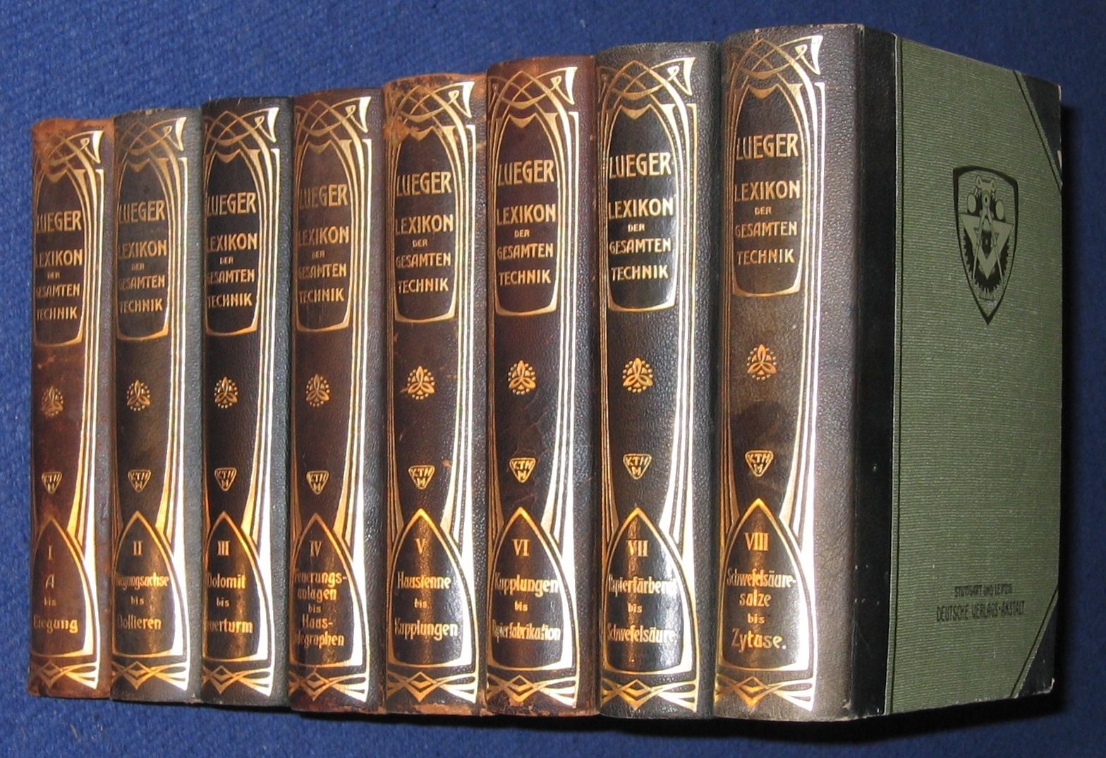 Book covers. Otto Lueger, "Lexikon der gesamten Technik", 8 volumes, 1904 (public domain).